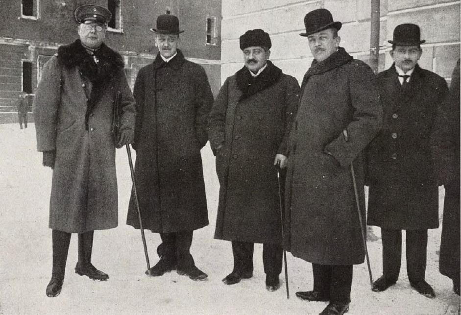 Central Powers' delegates at Brest-Litovsk (1917-1918): German general Max Hoffmann, Austrohungarian Foreign Minister Czernin, Ottoman Talaat Pasha and German Foreign Minister Kühlman.